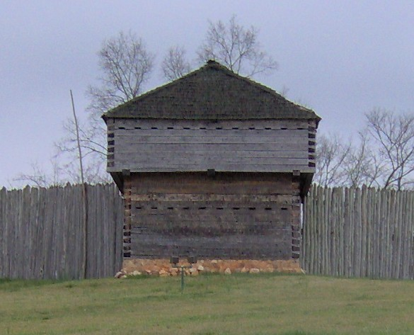 The reconstructed southeast corner blockhouse (Structure 1) at the Fort Southwest Point site in Kingston, Tennessee, in the southeastern United States.